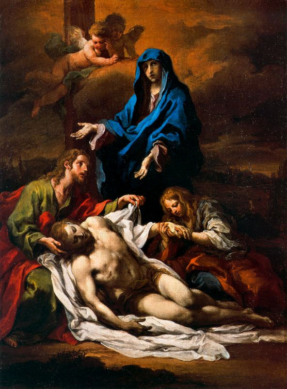 The Deposition